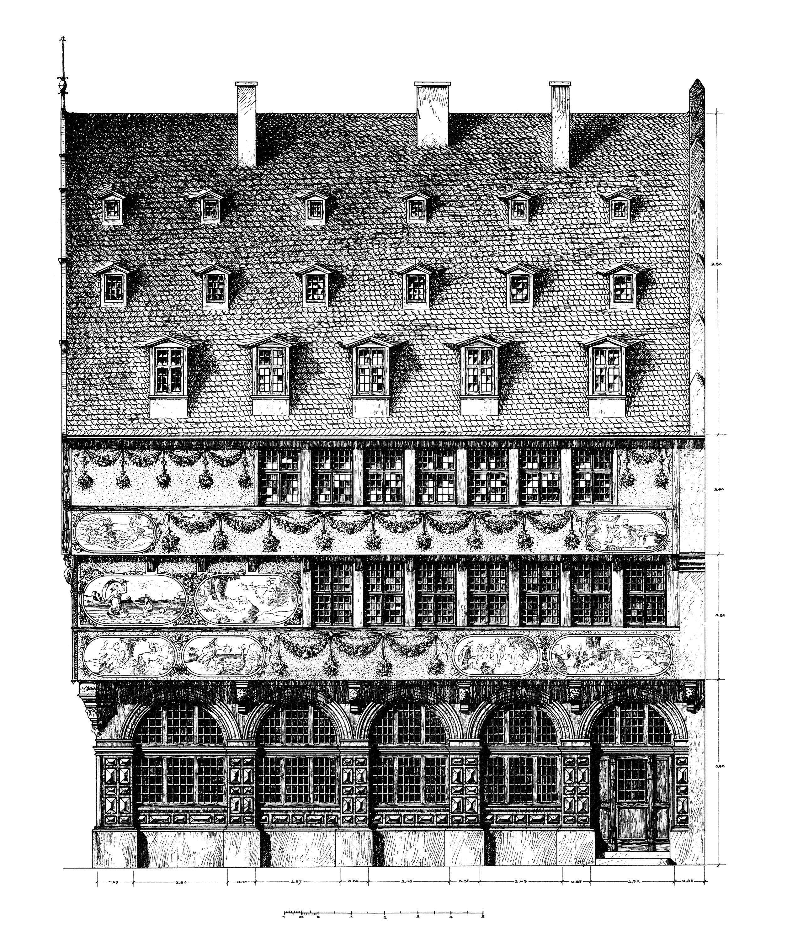 Oversize of the Salthouse in Frankfurt am Main as seen from the Braubach street